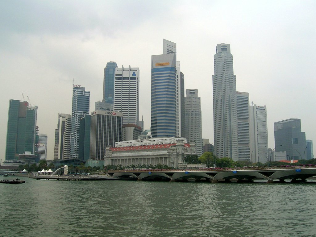 Skyscrapers in Singapore